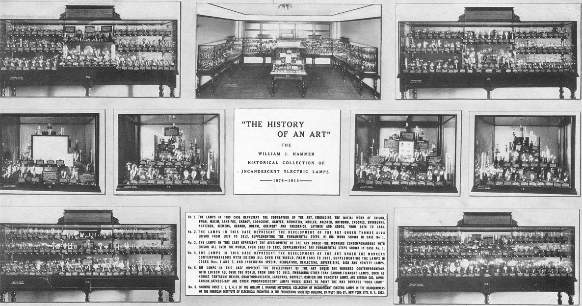 Hammer Historical Collection of Incandescent Lamps titled "The History of an Art"